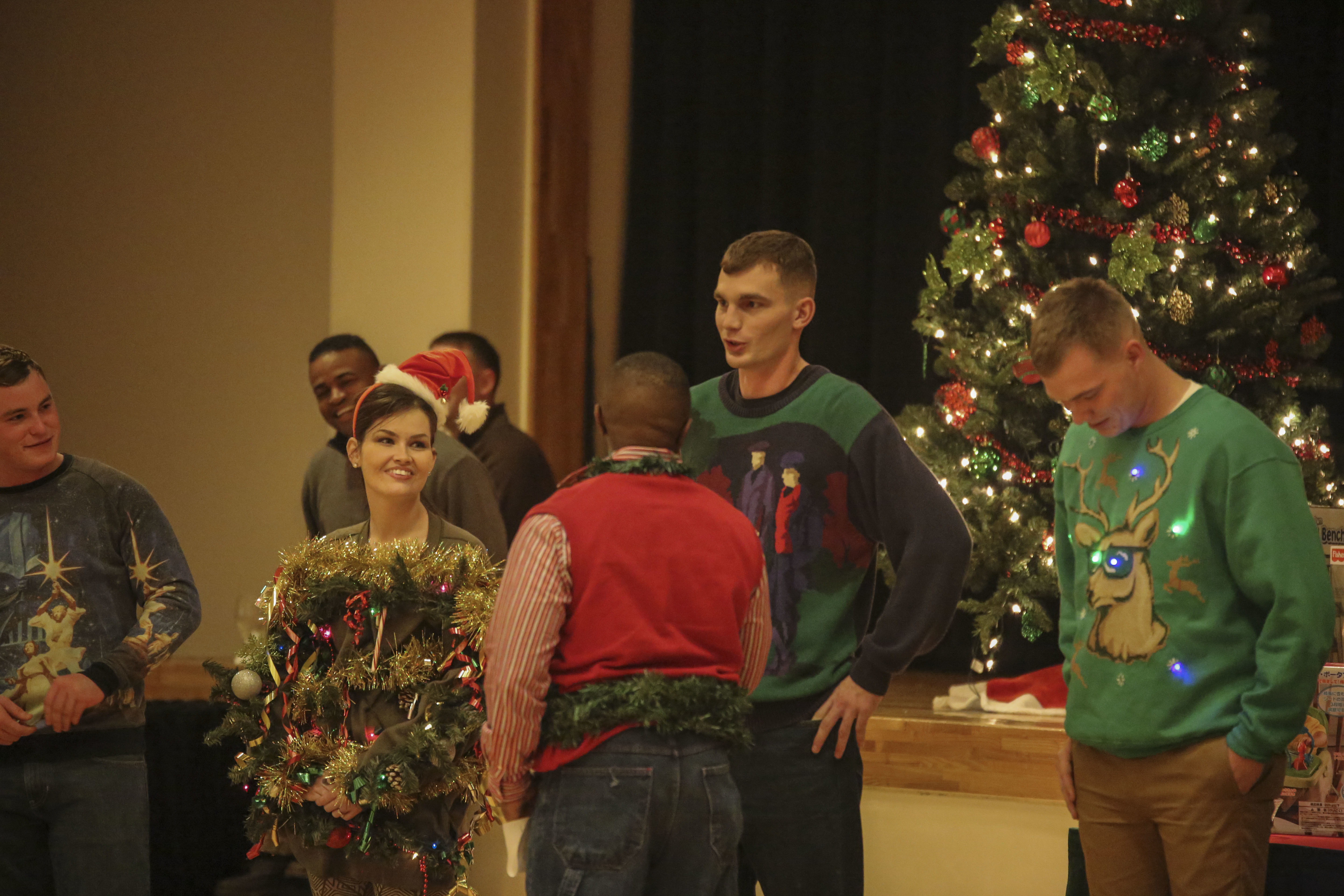 Marines, sailors and family members participate in an ugly sweater contest during Combat Logistics Battalion 31’s holiday party Dec. 17 at The Palms club. The party helped boost morale for those who are not able to celebrate the holidays with their families back home. The party hosted Marines and sailors with CLB 31, 31st Marine Expeditionary Unit. (U.S. Marine Corps photo by Lance Cpl. Ryan C. Mains/Released)